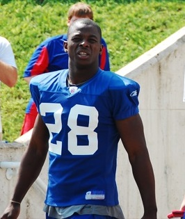 Gibril Wilson, New York Giants safety, at 2007 training camp